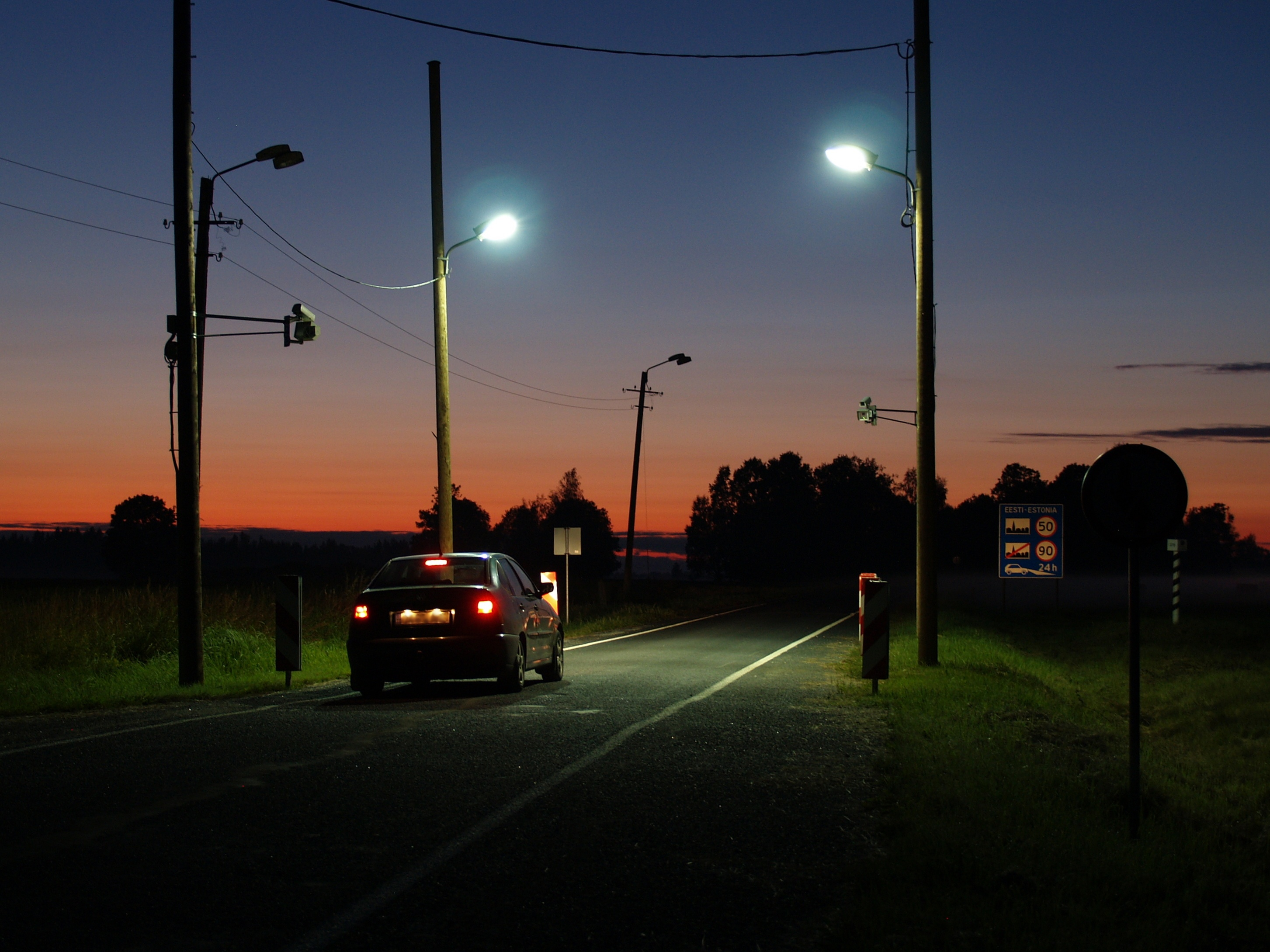 Small border point between Ipiku (Latvia) and Mõisaküla (Estonia). Schengen area.